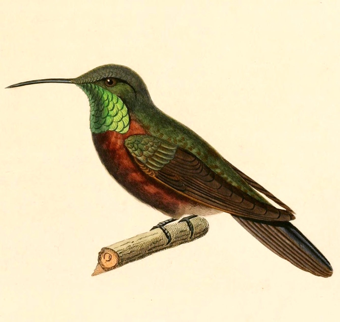 « Orthorhynchus adela » = Oreotrochilus adela (Wedge-tailed Hillstar)